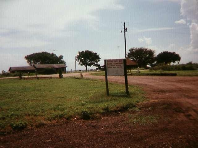 Mount Carmel (Branch Davidian compound site), near Waco, TX, 1997. Entrance.